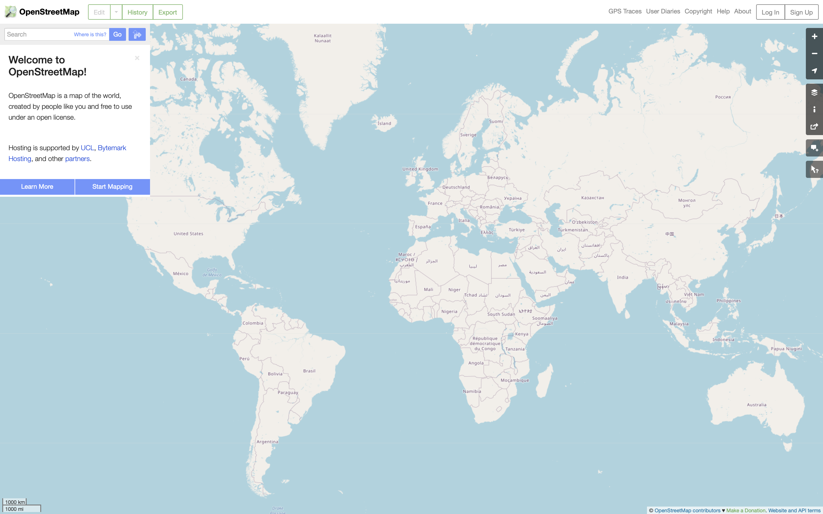 Screenshot of the OpenStreetMap homepage in 2020 (in English) Screenshot of the OpenStreetMap homepage in 2018 (in English)This map of the world was created from OpenStreetMap project data, collected by the community. This map may be incomplete, and may contain errors. Don't rely solely on it for navigation.